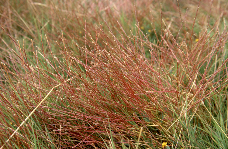 Parapholis strigosa at Humboldt Bay National Wildlife Refuge Complex, California, USA